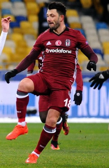 Tolgay Arslan